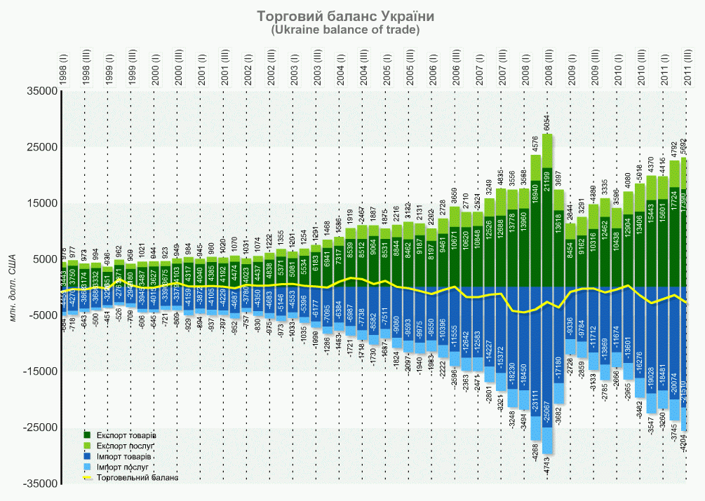 Trade Balance of Ukraine